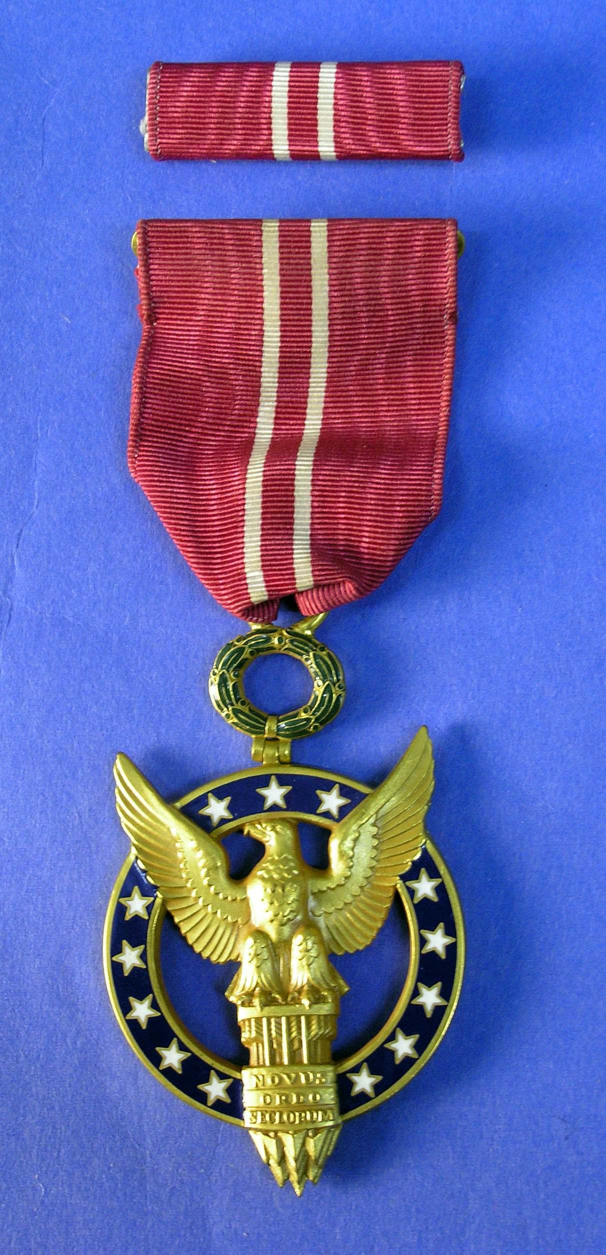 US Medal of Merit awarded to Methodist Missionary Reverend Archie Wharton Ellesmere Silvester, WW2 for his assistance in hiding 165 survivors of USS Helena for 8 days on Vella Lavella in the Solomon Islands gold and enamel medal on grosgrain ribbon with ribbon bar and rosette in original medal box markings- medal name marked in gilt on lid of medal box- MEDAL FOR MERIT